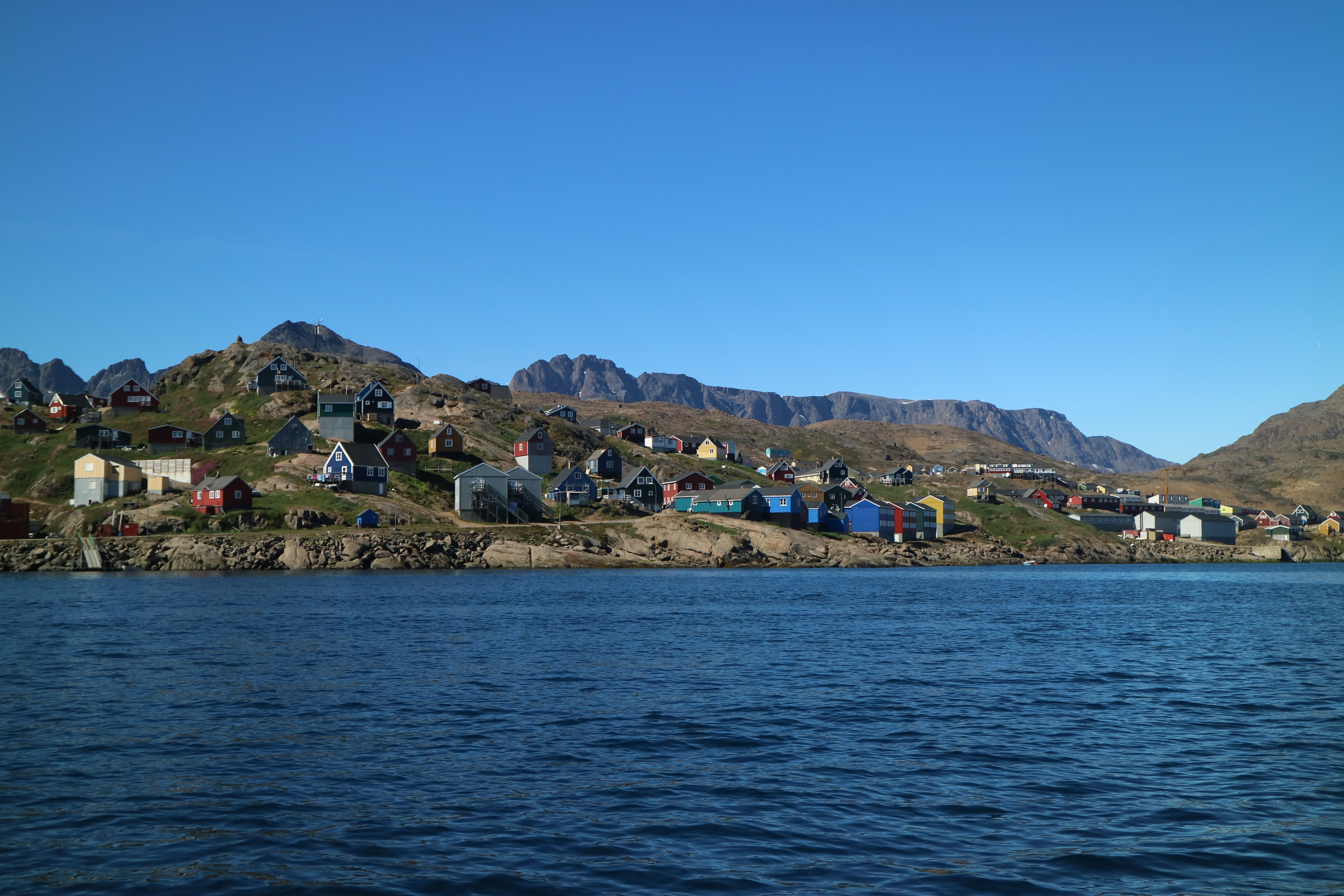 Tasiilaq, South East Greenland